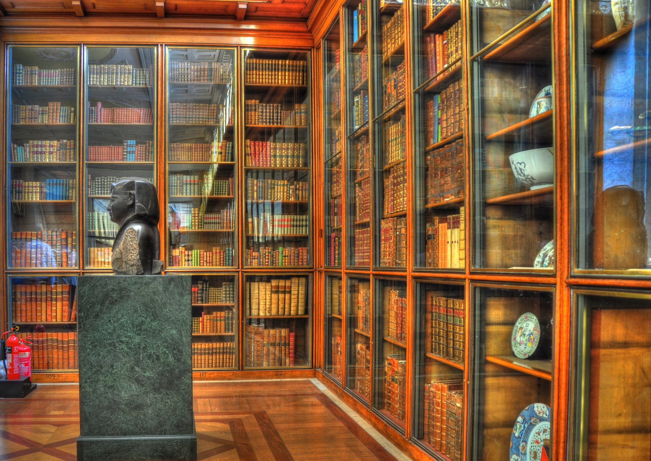 The British Museum's Enlightenment Room is a display dedicated to the age of Enlightenment. Separated into the various arts and sciences, there are books, fossils and statues on display, along with examples of earthenware and metalwork, which try to explain how pieces were viewed and collected at the time. There are many shelves of old leather-bound books covering topics from the obscure (insect legs) to the popular (Shakespeare). It also has two fire extinguishers. This fact alone makes it the most awesome room in the world. Press f to view on black!